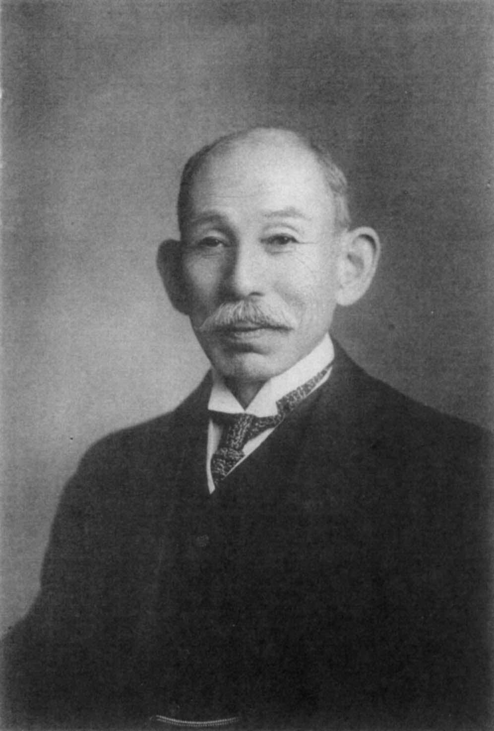 Hozumi Nobushige, taken in September 1919.